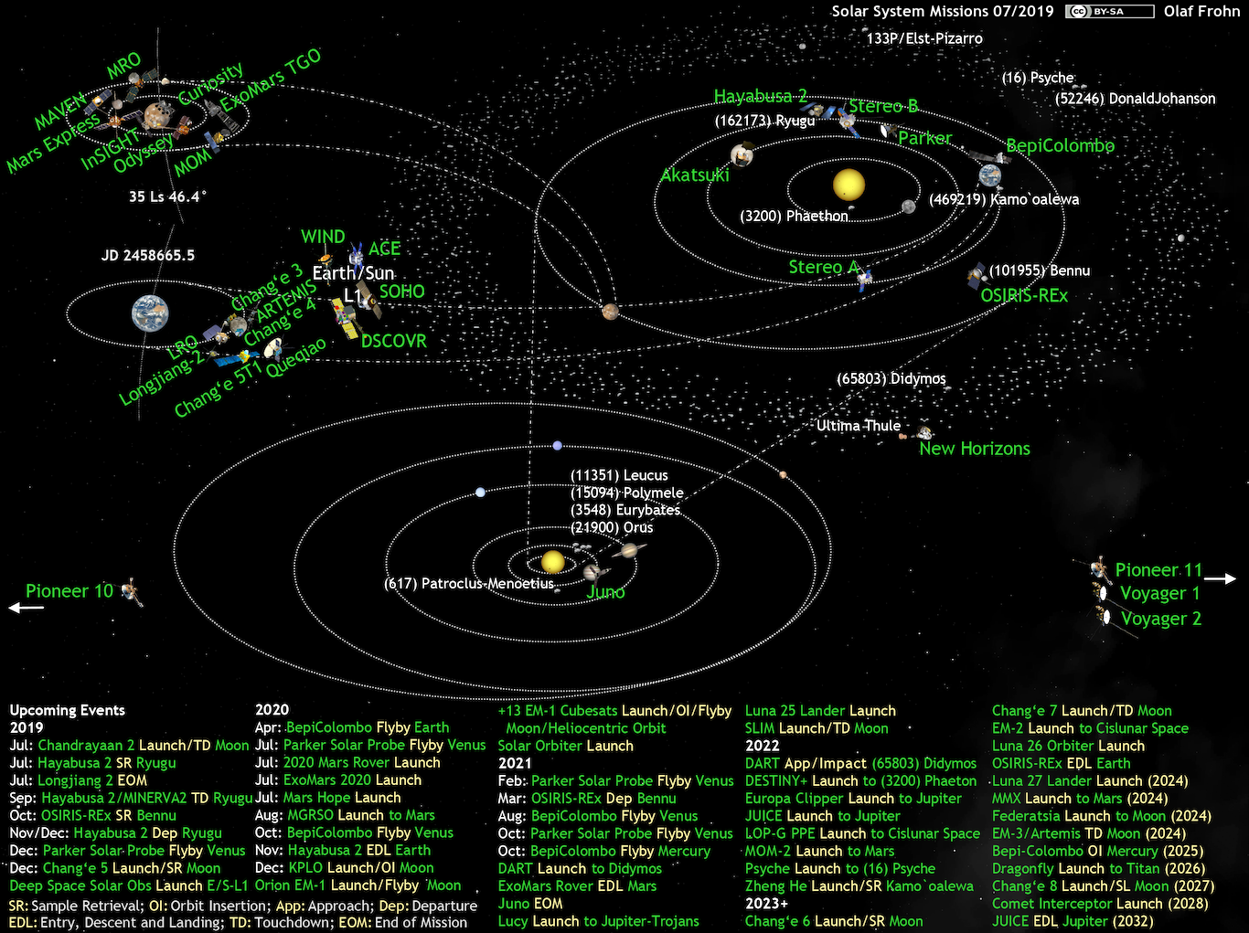 A diagram of active space missions traveling beyond Earth orbit, July 2019.